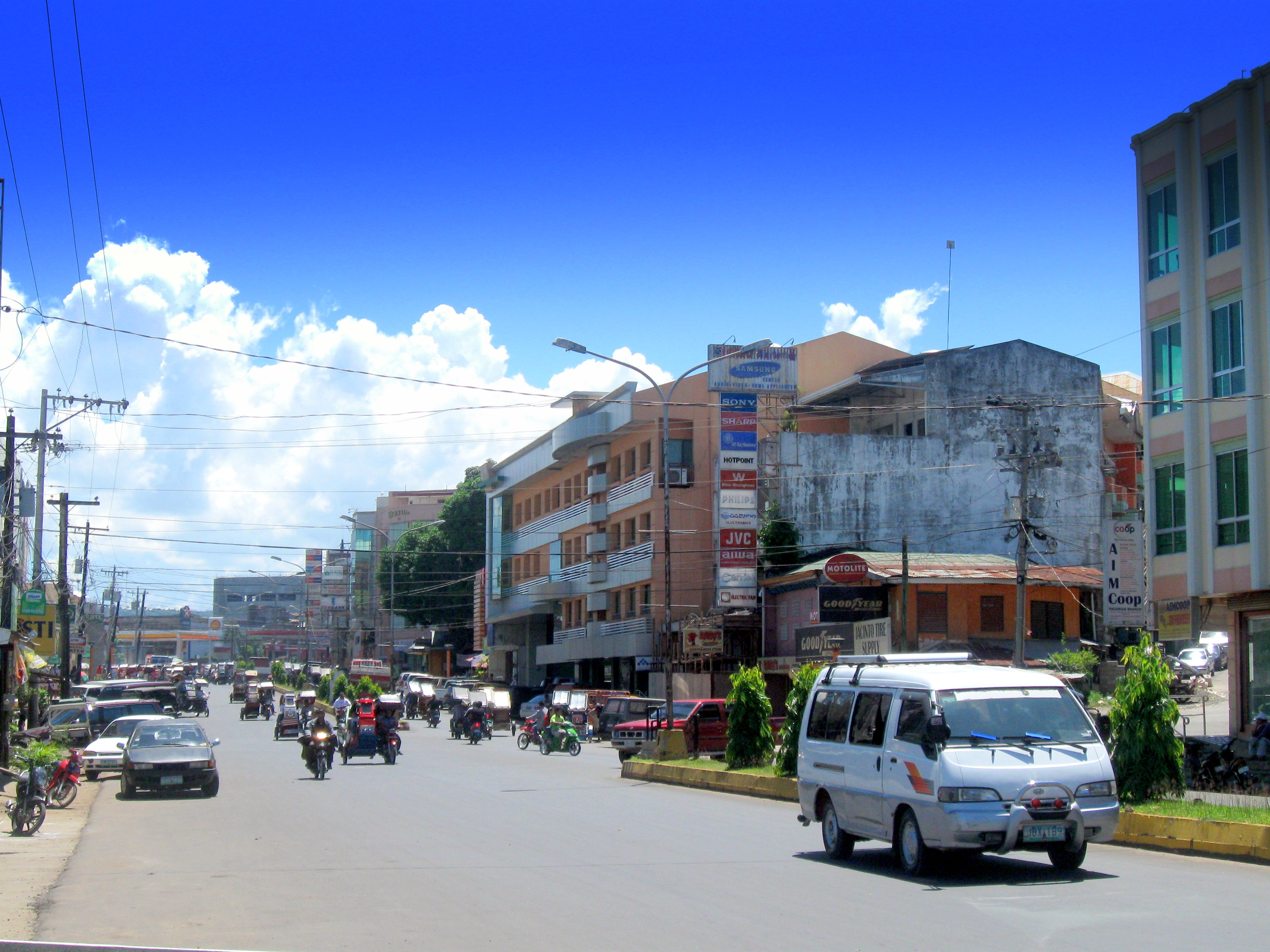 View along Rizal Avenue, Pagadian City, Philippines.